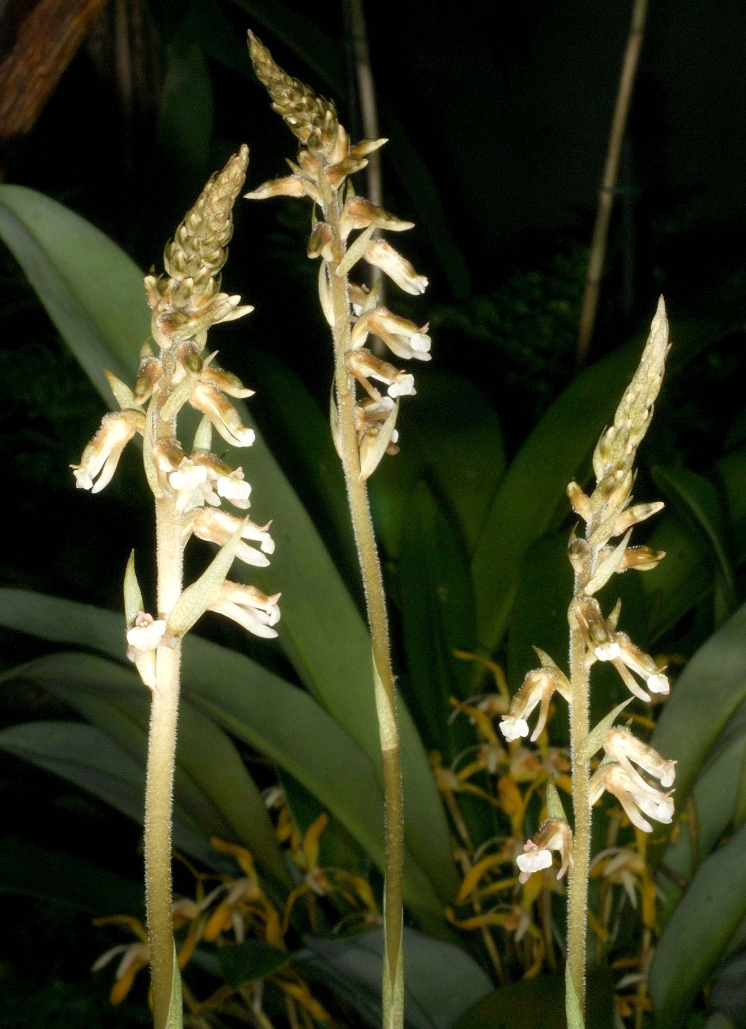 Cyclopogon lindleyanus